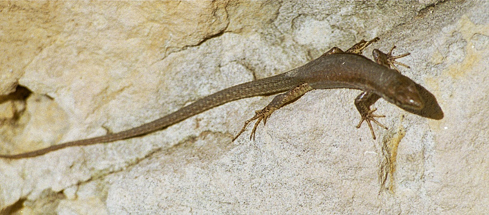 Maltese Wall Lizard at Marsaxlokk, Malta